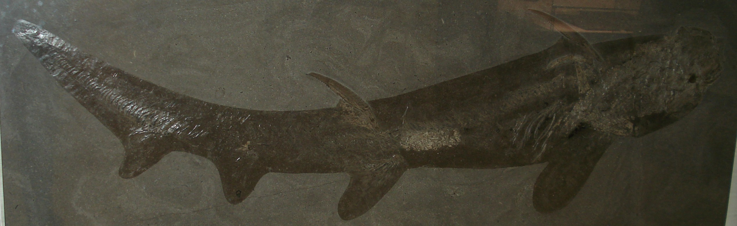 fossil of Hybodus